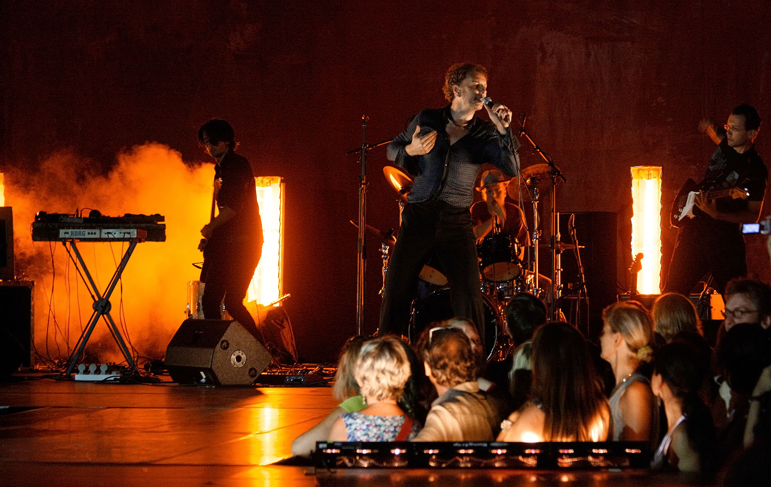 Wim Vandekeybus/Ultima Vez and Mauro Pawlowski presenting What's the Prediction? at the opening of the ImPulsTanz Vienna International Dance Festival (Museumsquartier, Vienna).